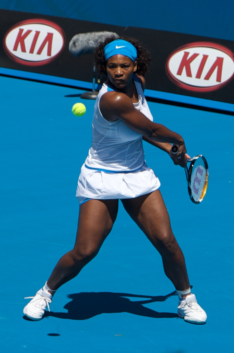 Womens' Doubles